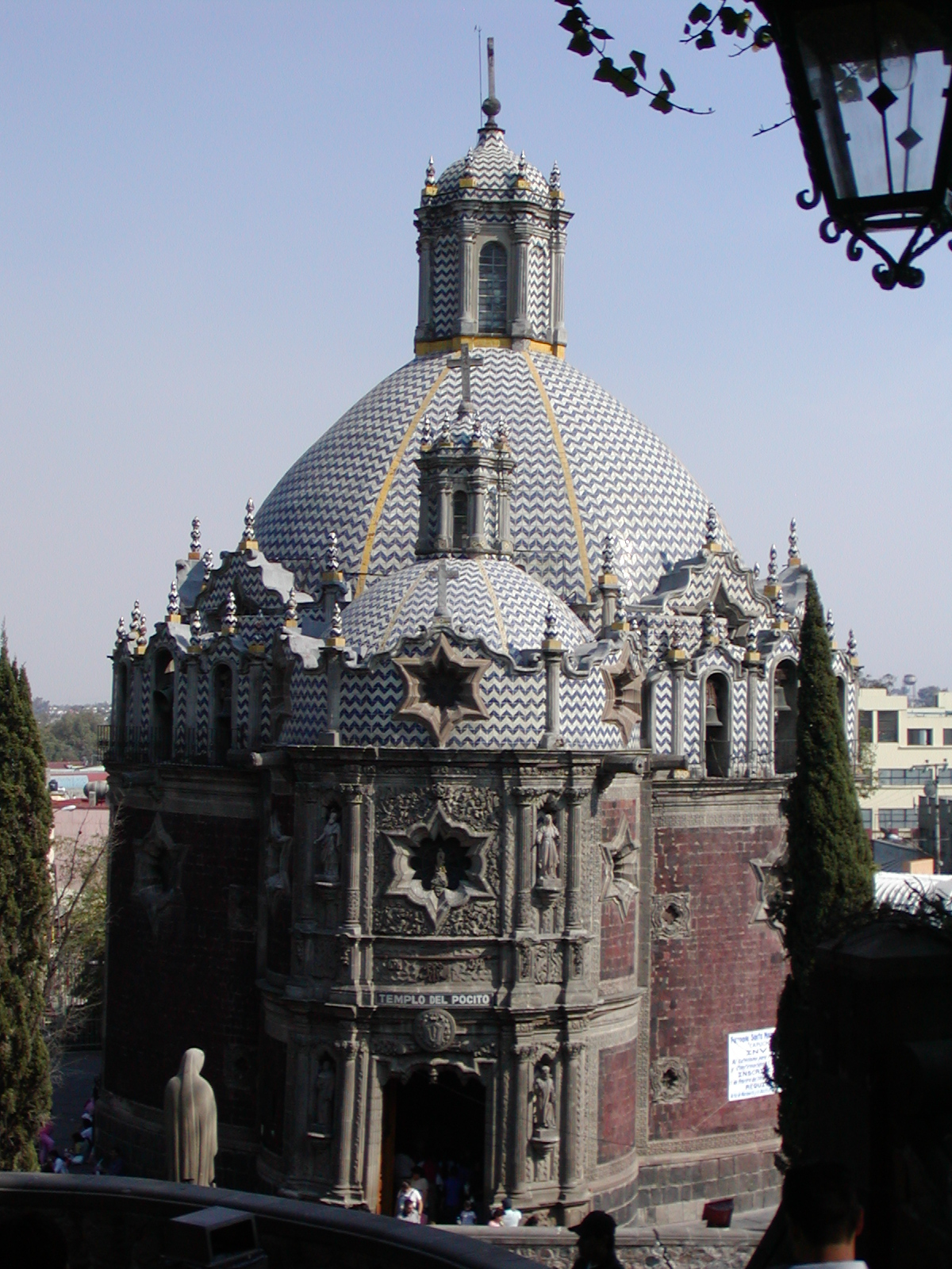 "Templo del Pocito" at the Shrine of Our Lady of Guadalupe in Gustavo A. Madero DF, México. Image taken from the Tepeyac hill. Note: Metadata errata: Image date:15:11 2 jun 2006 correct data: 15:11 2 Feb 2006